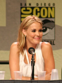 Leslie Bibb at Comic-Con promoting The Midnight Meat Train